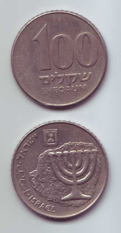 100 old Shekel coin dated התשמ"ד